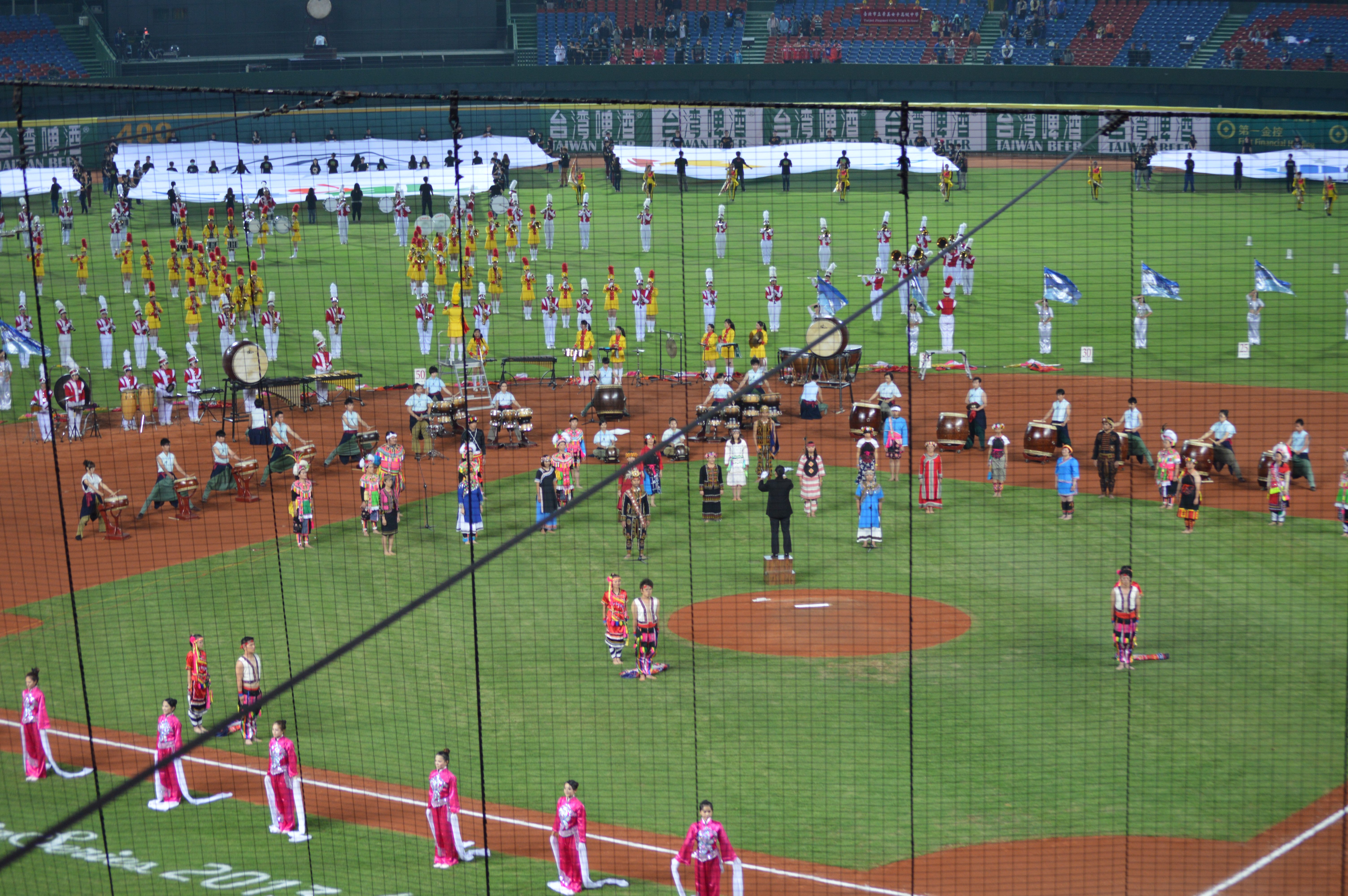 The Opening Ceremony of 2013 Asia Series. National Anthem Performance.